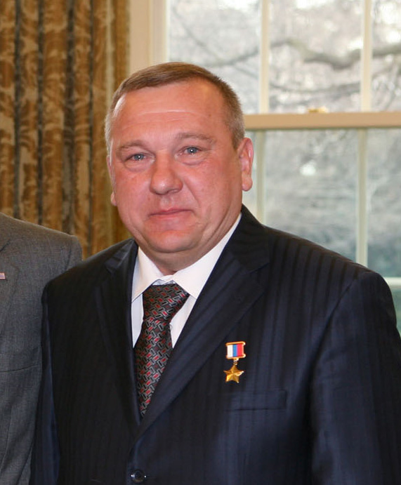 (Left) Gen. Vladimir Shamanov